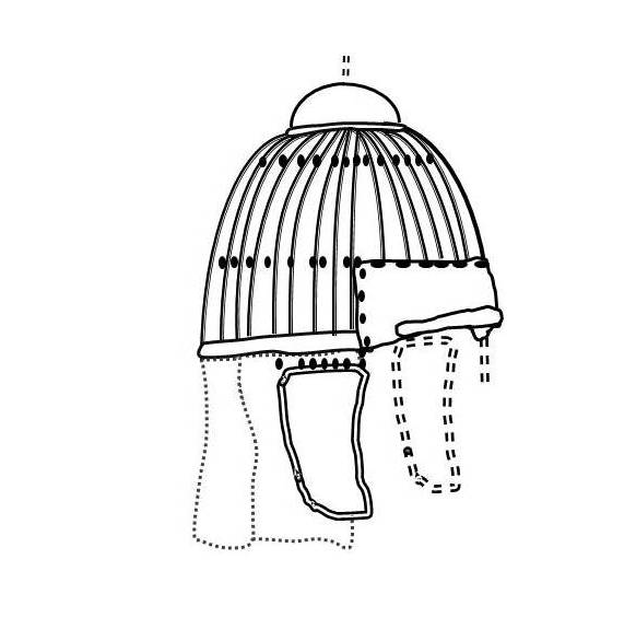 Lamellar Helmet Kerch II (Ukraine, 6th-7th century); parts, which are depicted in dotted lines are lacking Reference: David Nicolle: Attila and the Nomad Hordes. Osprey, Paperback; September 1990; 64 pages; ISBN: 9780850459968 Mahand Vogt: Spangenhelme. Baldenheim und verwandte Typen (= Kataloge vor- und frühgeschichtlicher Altertümer. Bd. 39). Römisch-Germanisches Zentralmuseum, Mainz 2006, ISBN 3-88467-100-6 (Zugleich: München, Univ., Diss., 2000).